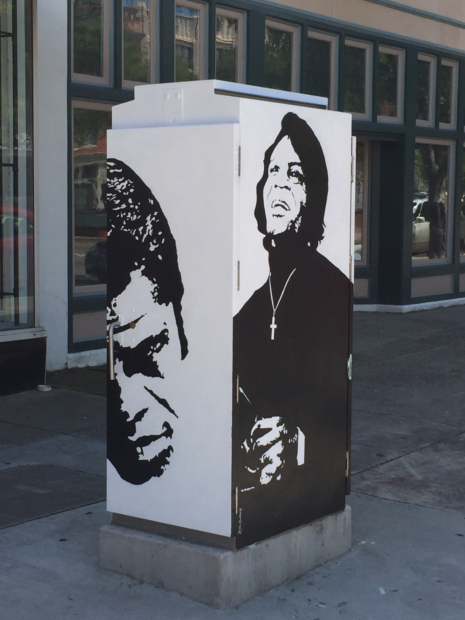 This traffic box was commissioned to be painted in tribute to the late great Godfather of Soul in 2015. Ms. Robbie Pitts Bellamy is the artist that won the competition.